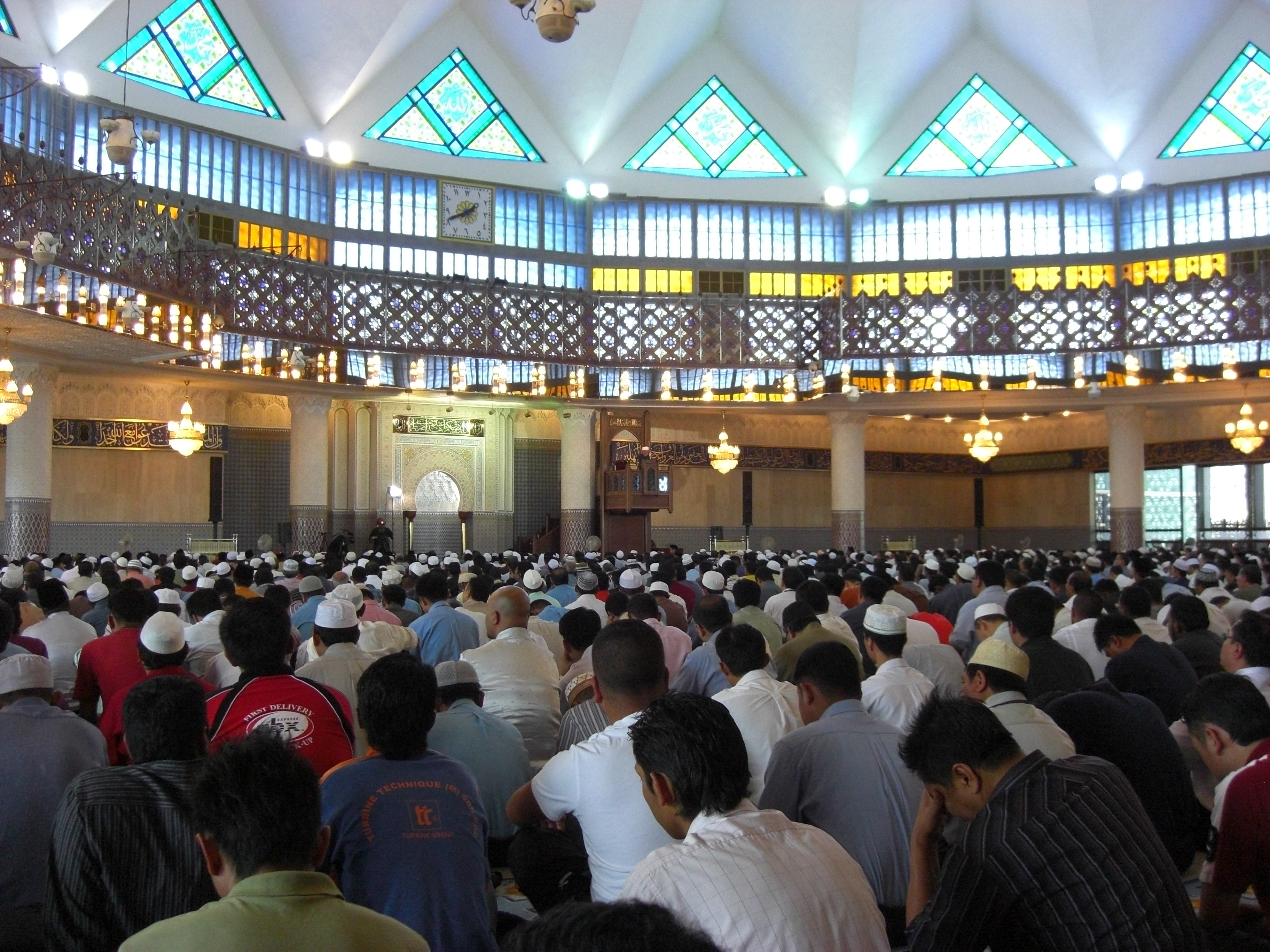 Friday prayer Khutbah inside the main prayer hall of Masjid Negara, Kuala Lumpur, Malaysia.